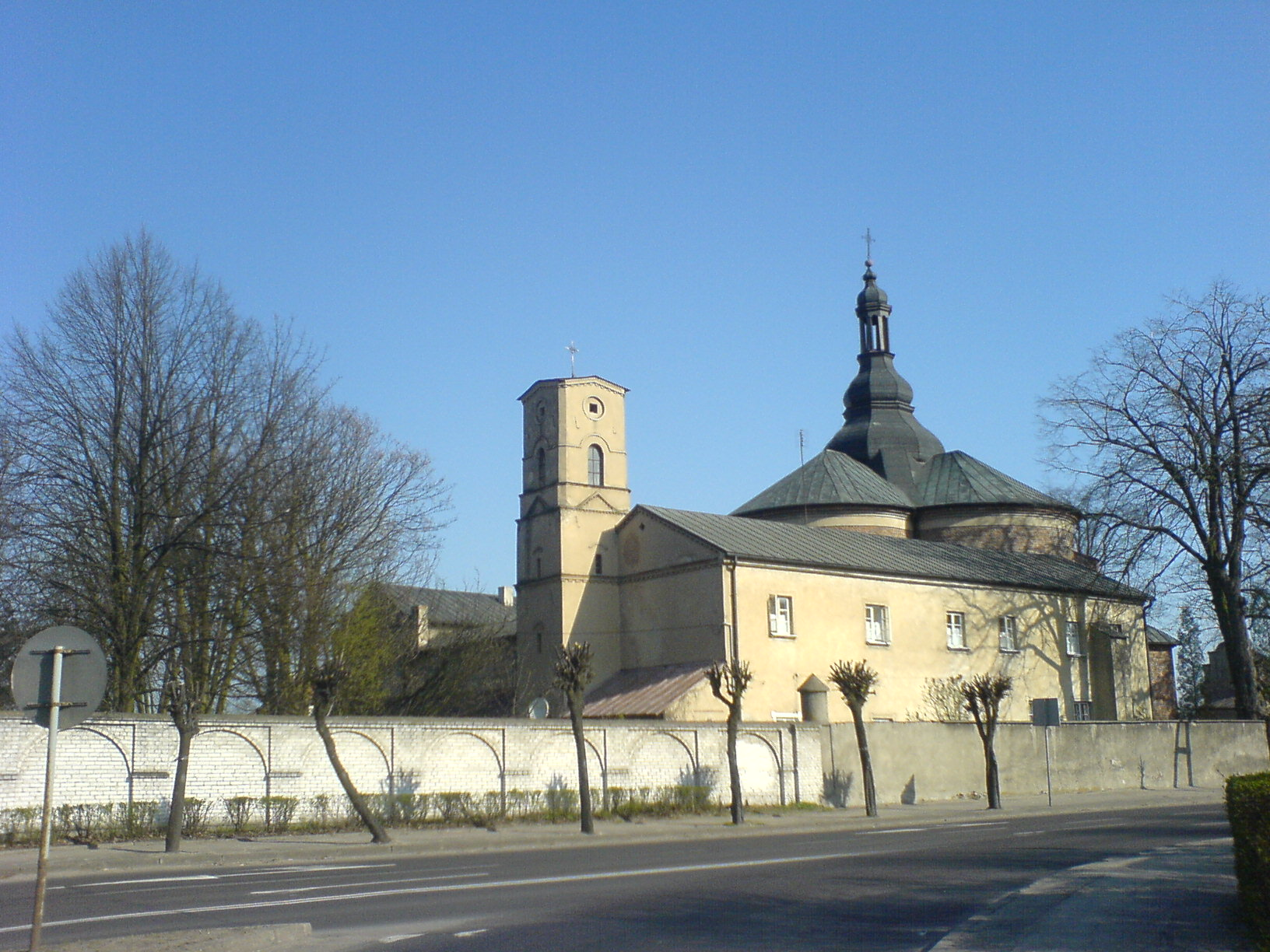 Złoczew (Poland, Łódź Voivodeship, Sieradz County), Sieradzka street